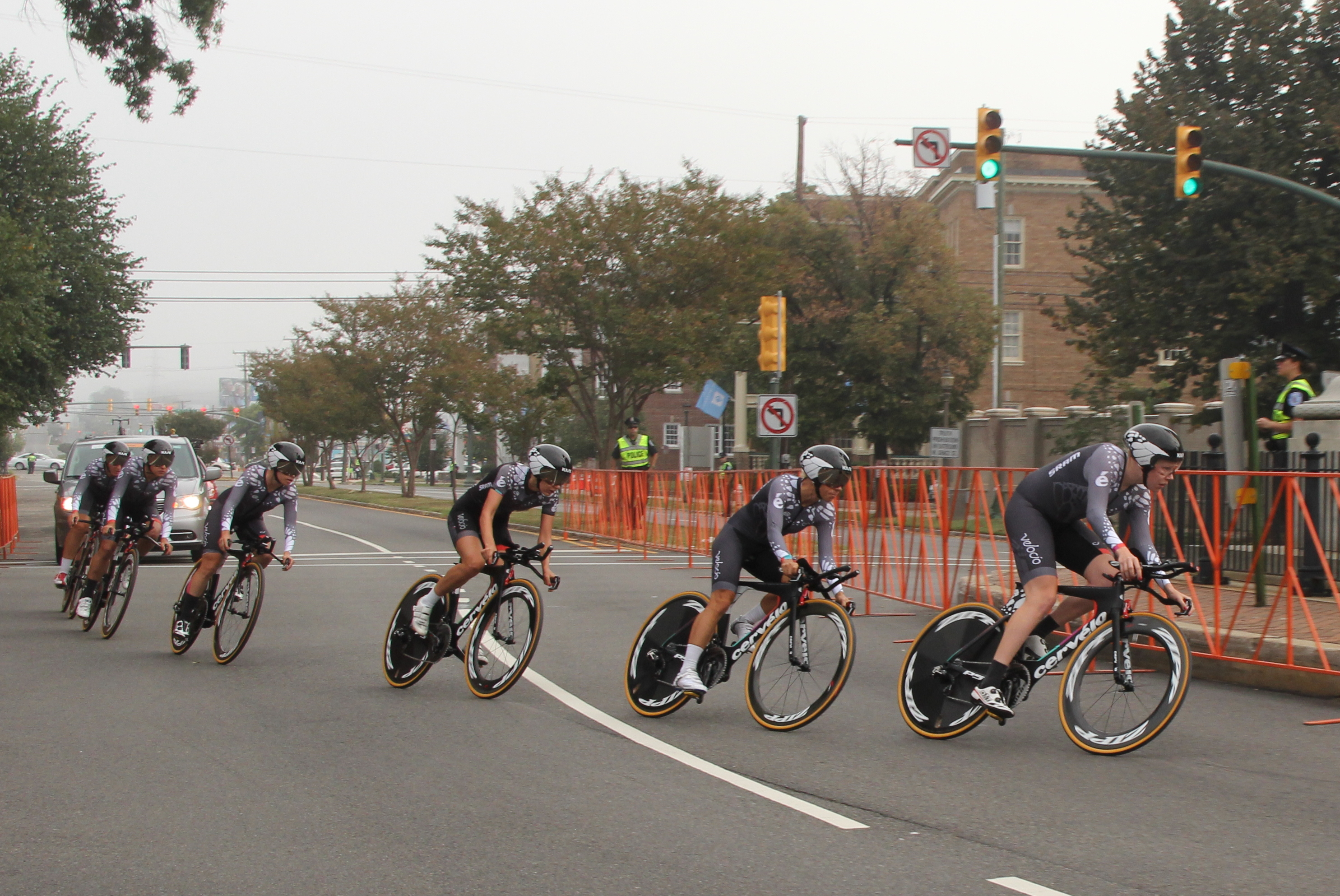 The world has come to Richmond. Welcome! Bienvenidos! Willkommen! 2015 UCI Road World Championships, in Richmond, United States Team Velocio-SRAM